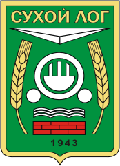 Sukhoi Log (Sverdlovsk oblast), coat of arms (1987)